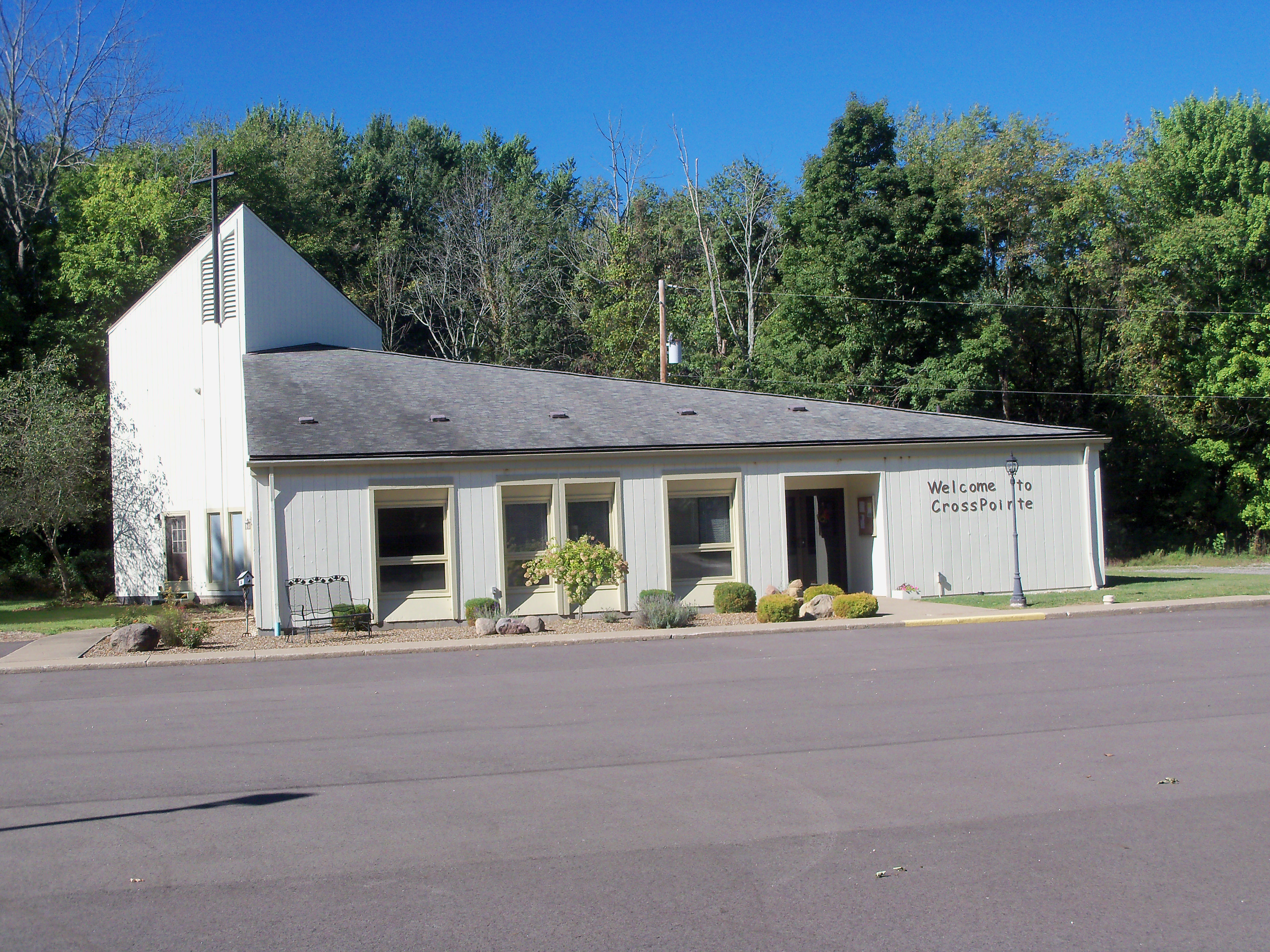 CrossPointe Community Church is a non-denominational congregation in Chippewa Lake, Ohio. The building is the former Jesus Divine Redeemer Catholic Church.